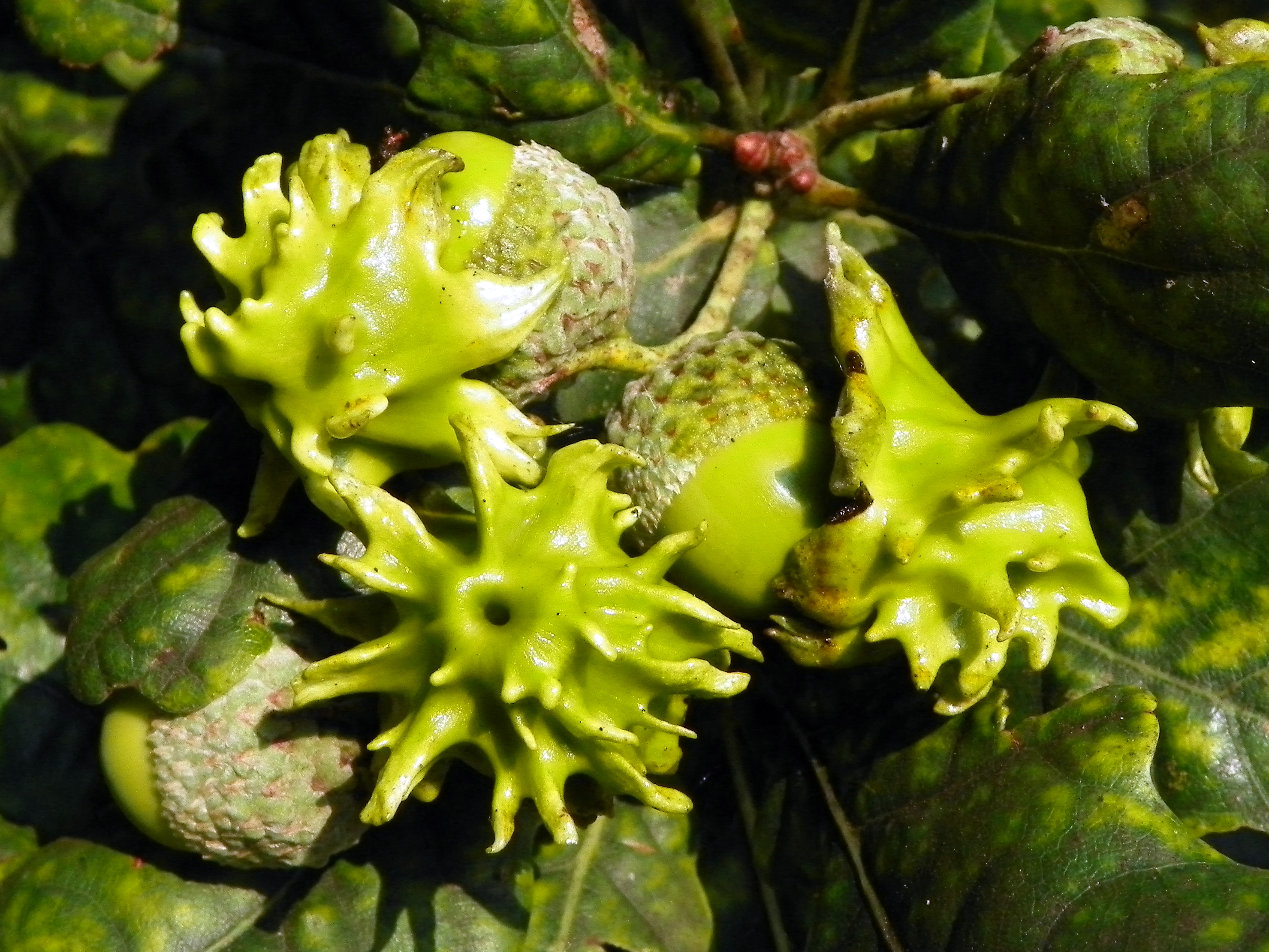 Knopper Gall, caused by the gall wasp Andricus quercuscalicis, on English Oak (Quercus robur), Nomansland Common, Hertfordshire, 25 August 2013.